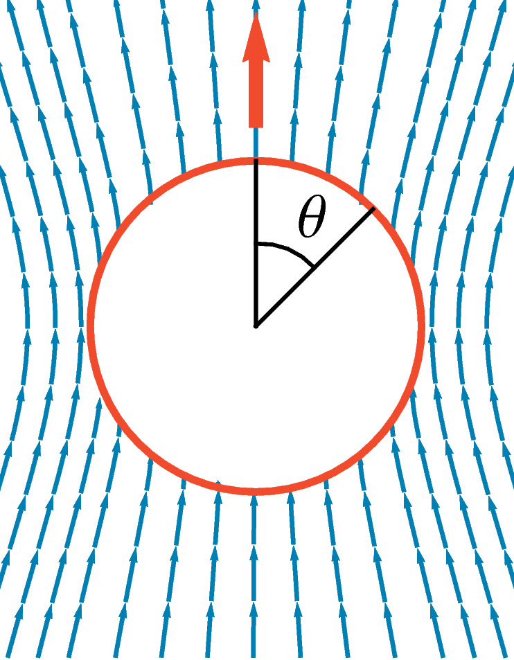 Velocity field